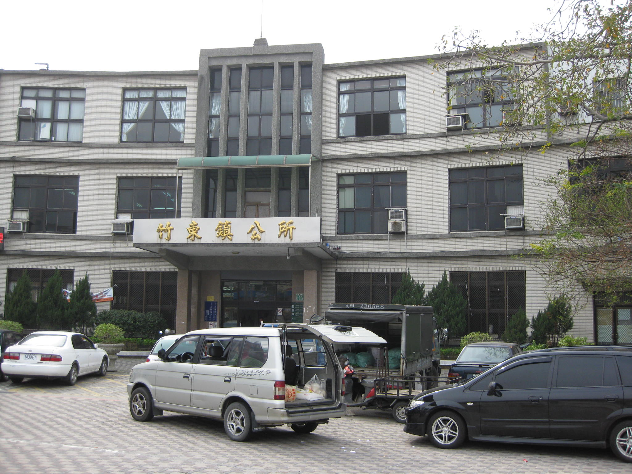 Zhudong Town Office.中文（台灣）: 竹東鎮公所